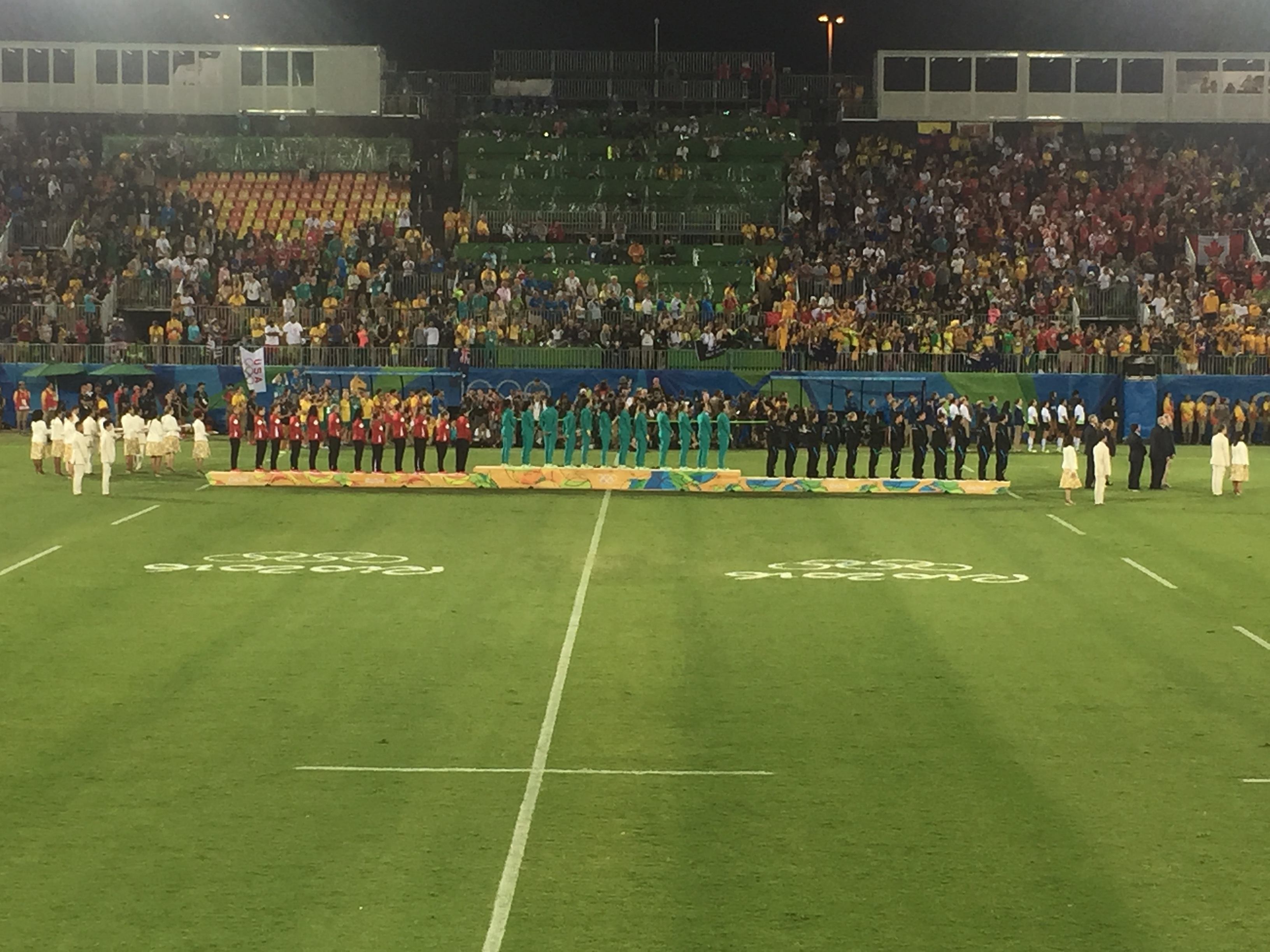 Rio 2016 Olympics - Women's rugby Stevens final